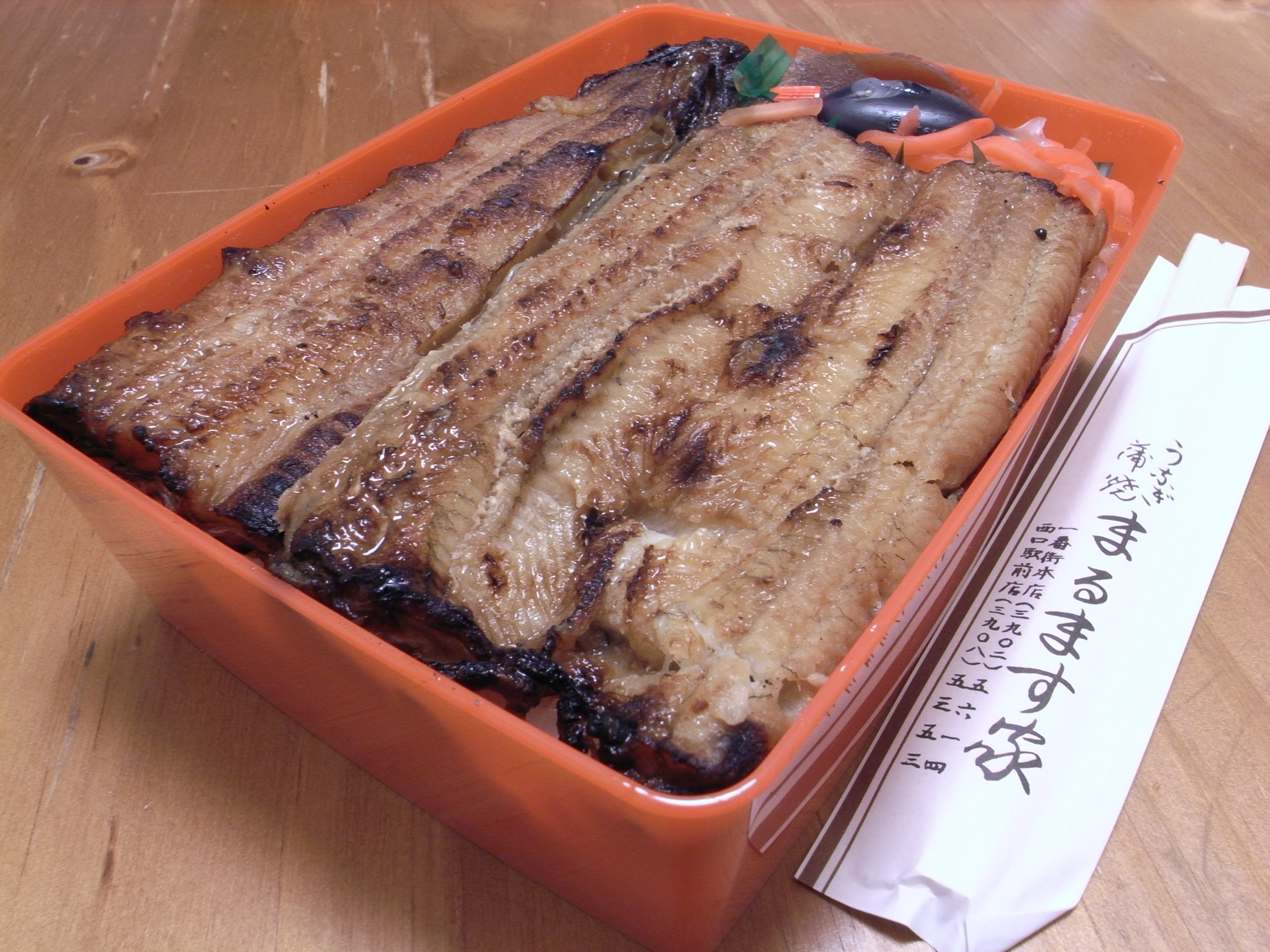 FoodCourt